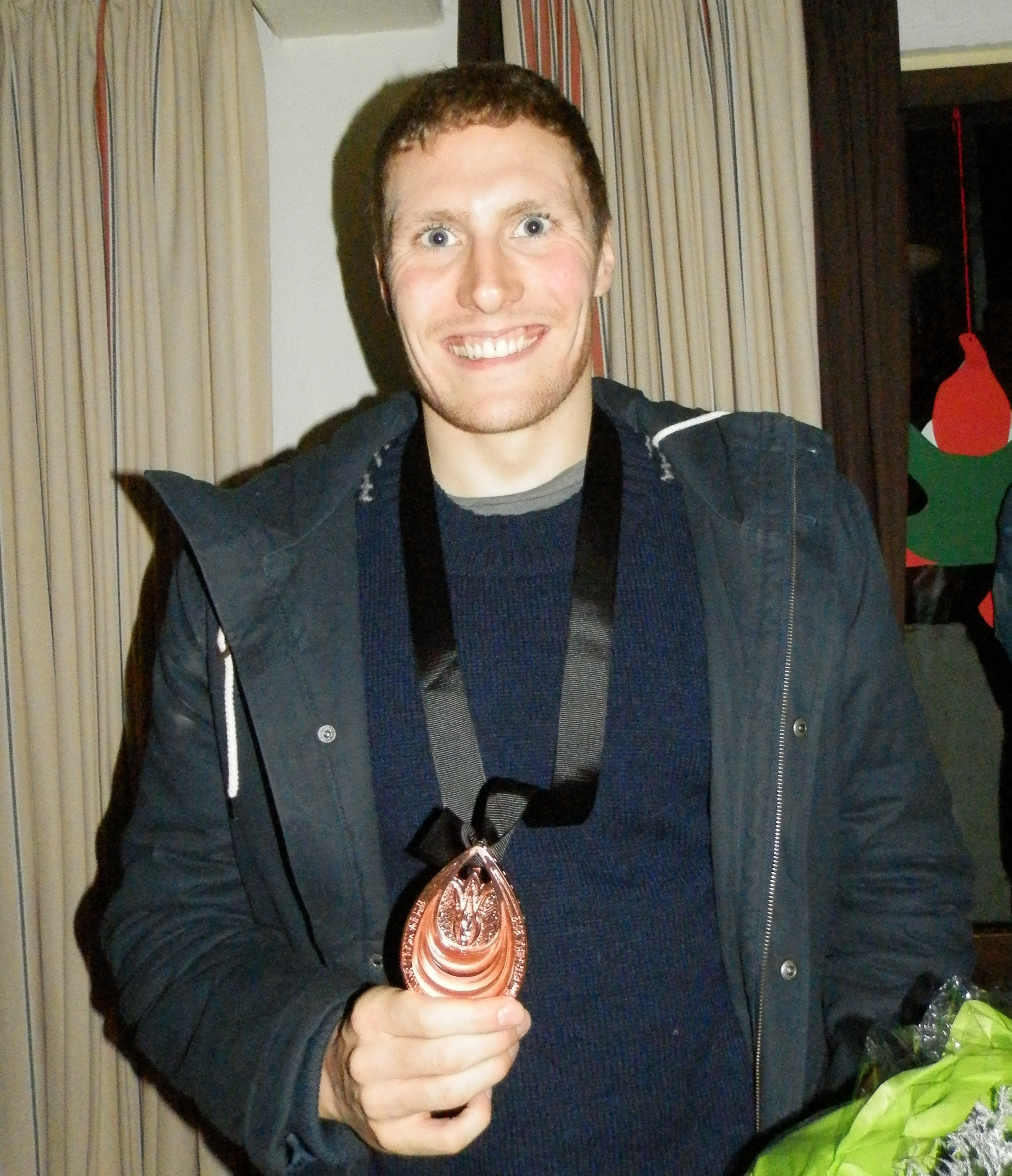 Pál Joensen is a Faroese swimmer. He comes from a small village called Vágur (it means Bay), with a population of 1350. The island has only 4700 inhabitants, and all of the Faroe Islands have a population of 50.000. And yet, he can now call himself the third best swimmer in 1500 m freestyle on short course. He won a bronze medal at the 2012 FINA World Swimming Championships (25 m) in Istanbul. It was the best Faroese sport result ever. Pál Joensen lived in his hometown in the Faroe Islands until August 2012, he moved to Copenhagen in Denmark just after competing at the Olympic Games 2012 in London. At the Olympics he competed for Denmark, because the Faroe Islands is not an independent nation, but a self-governing part of Denmark. Even if he now lives in Denmark, he continues to swim for the Faroe Islands at all international competitions except for the Olympics. Føroyskt: Pál Joensen í desember 2012, fimm dagar eftir at hann hevði vunnið bronsu á HM í svimjing í 1500 m frí á stuttgeil. Tað má sigast at vera størsta føroyska ítróttarbragdið higartil. Myndin er tikin á móttøku fyri Pál Joensen í heimbygd hansara - í Vági.